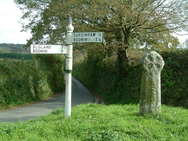 Treslea Cross. Ancient "Celtic" cross at road junction on the edge of Bodmin Moor.